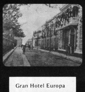 A frame for the first film to be produced in Venezuela (1896/1897), thought be lost for many decades. It features a black-and-white image, though not a film negative, of a street outside the Hotel Europa in Maracaibo, in a black frame with an old typed note below, reading "Gran Hotel Europa".